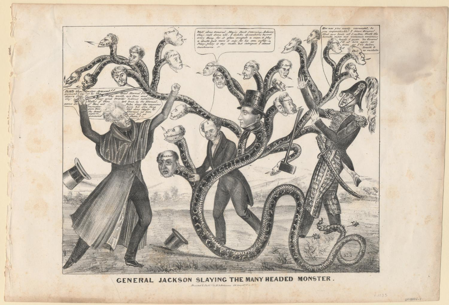 A satire on Andrew Jackson's campaign to destroy the Bank of the United States and its support among state banks. Jackson, Martin Van Buren, and Jack Downing struggle against a snake with heads representing the states. Jackson (on the left) raises a cane marked "Veto" and says, "Biddle thou Monster Avaunt!! avaount I say! or by the Great Eternal I'll cleave thee to the earth, aye thee and thy four and twenty satellites. Matty if thou art true...come on. if thou art false, may the venomous monster turn his dire fang upon thee..." Van Buren: "Well done General, Major Jack Downing, Adams, Clay, well done all. I dislike dissentions beyond every thing, for it often compels a man to play a double part, were it only for his own safety. Policy, policy is my motto, but intrigues I cannot countenance." Downing (dropping his axe): "Now now you nasty varmint, be you imperishable? I swan Gineral that are beats all I reckon, that's the horrible wiper wot wommits wenemous heads I guess..." The largest of the heads is president of the Bank Nicholas Biddle's, which wears a top hat labeled "Penn" (i.e. Pennsylvania) and "$35,000,000." This refers to the rechartering of the Bank by the Pennsylvania legislature in defiance of the adminstration's efforts to destroy it.